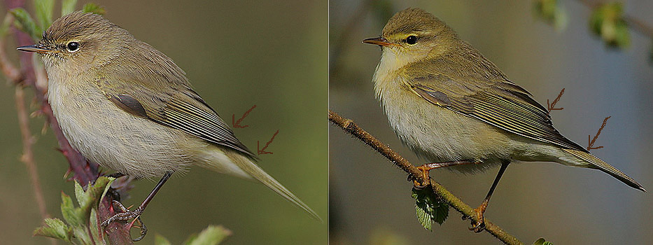 These two small warblers are easily confused unless heard singing but there are subtle differences to note. Willow Warbler usually has pale legs whilst Chiffchaff legs are usually dark. The Chiffchaff has more olive upperparts and a less conspicuous supercilium whilst its bill is usually universally darkish whilst that of Willow Warbler has a darkish upper mandible and a slightly paler lower mandible. The clincher however is the primary projection which is always markedly longer in Willow Warbler.